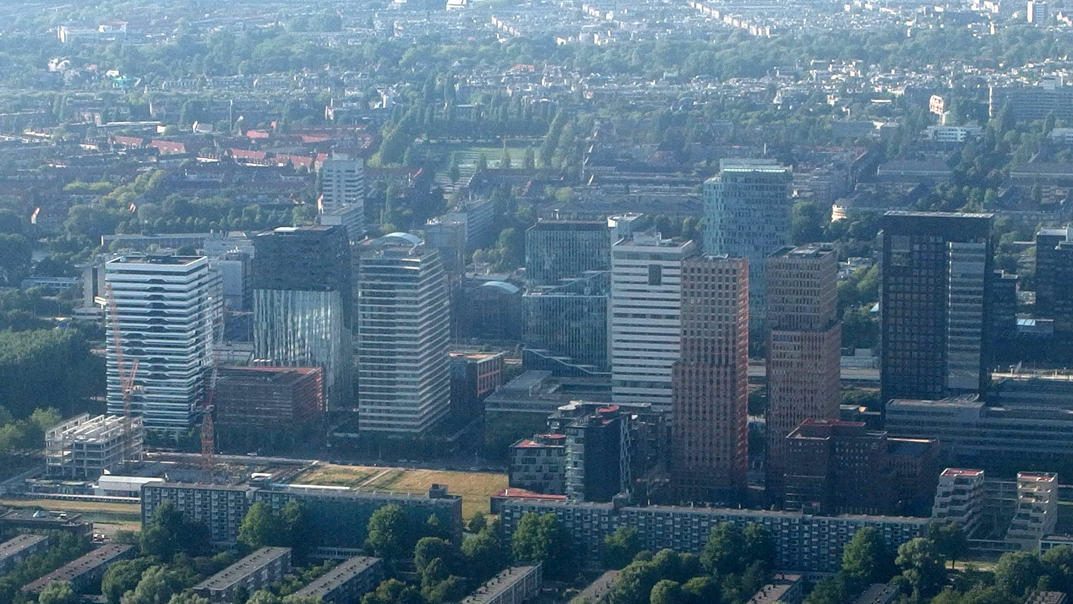 2014-07-03 approaching Schiphol Airport.